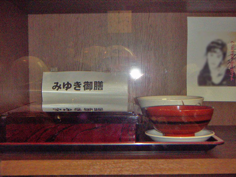 Tableware that have been used by the singer Miyuki Nakajima, displayed at the Kurobegawa No.4 Power Station